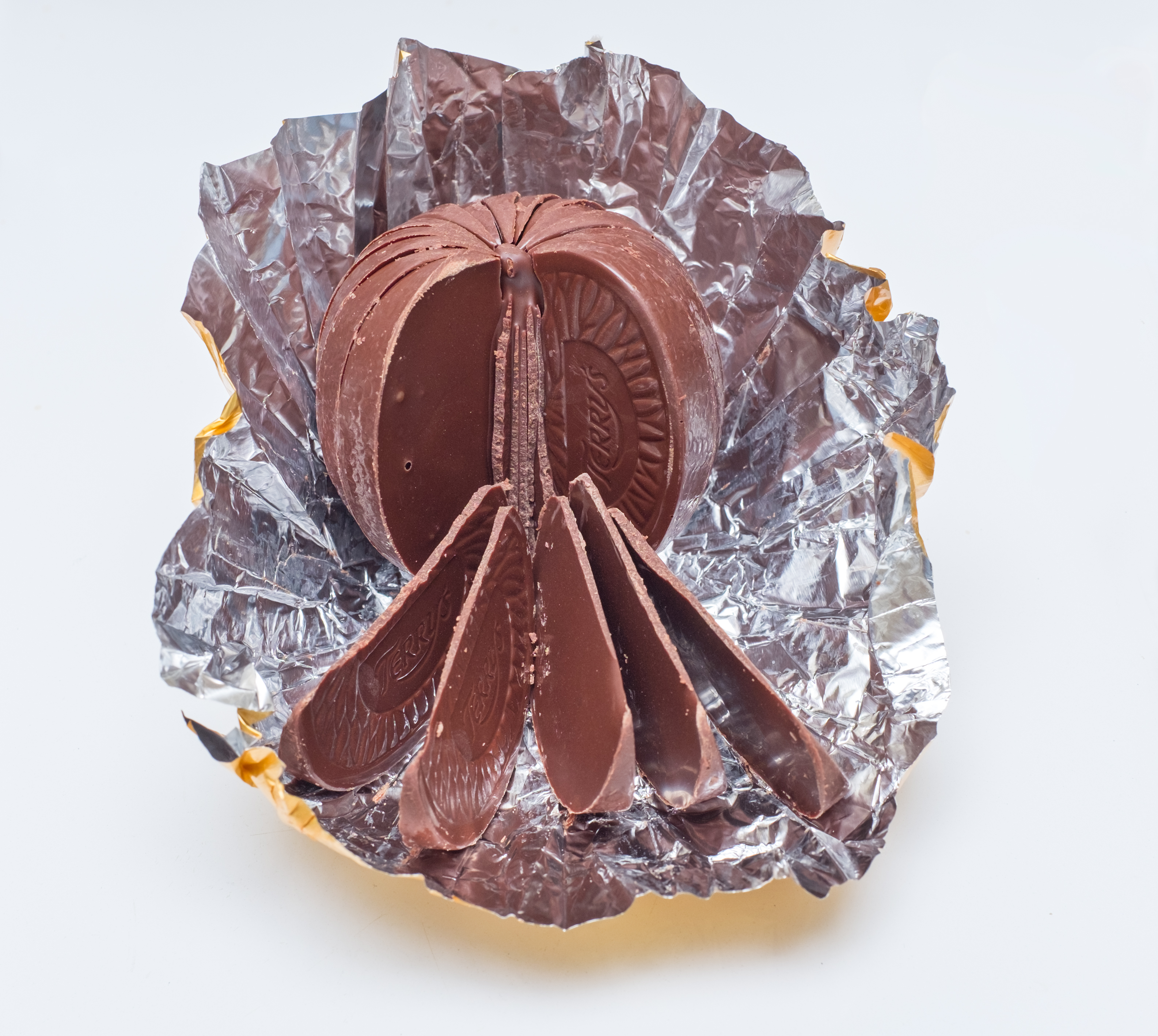 The same chocolate orange, opened, showing the individual slices of candy